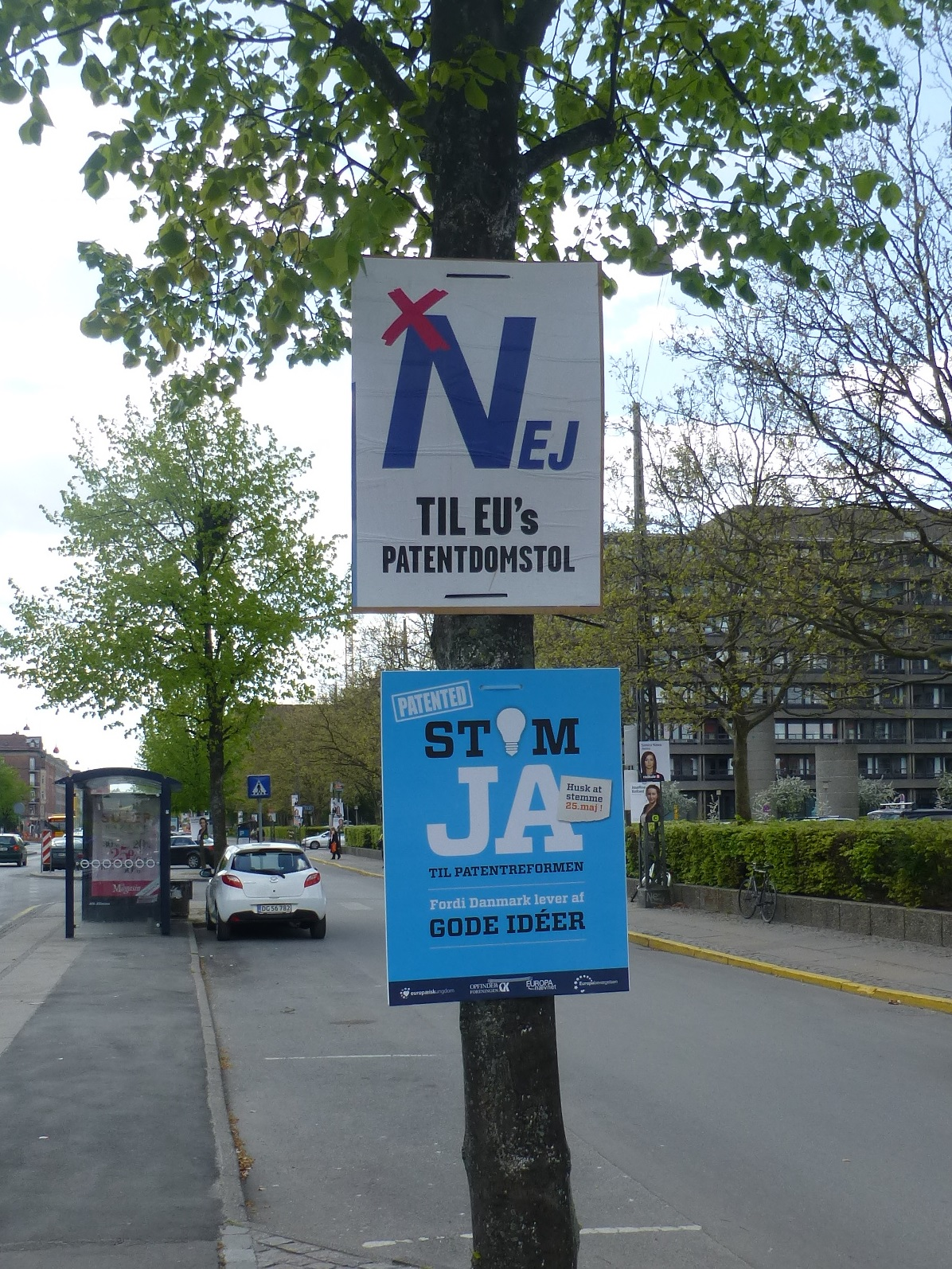 Election posters on Blegdamsvej at Rigshospitalet in Østerbro in Copenhagen before the election 25 may 2014 about the Danish Unified Patent Court membership referendum